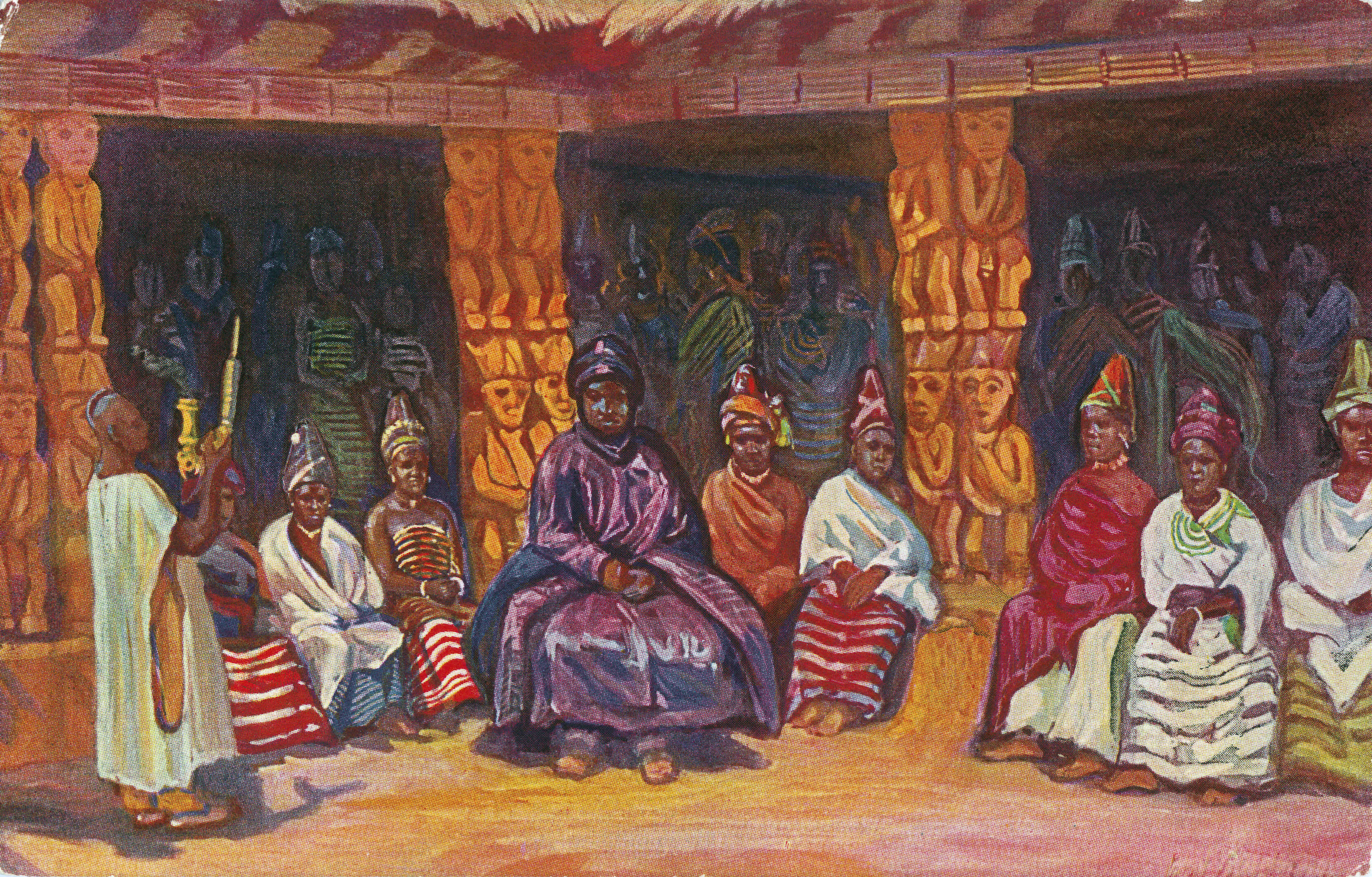 Njoya and his wives, in Cameroon The Bamum king Njoya with his wives in front of his palace in Foumban. Reproduction of a water-colour by Ernst Vollbehr.; Postcard of the Société des missions évangéliques de Paris (Paris evangelical missionary society). Photographer: Wuhrmann, Anna Filename: IMP-DEFAP_CMCFGB-CP045_2 Coverage date: 1912 Subject (unesco): Heads of state; Palaces; Painting; Traditional architecture Part of collection: International Mission Photography Archive, ca.1860-ca.1960 Geographic subject (region): Bamum (Cameroon) Type: images Part of subcollection: Photographs of the Défap - Service protestant de mission, Paris, ca. 1880-1971 Part of repository: Défap - Service protestant de mission Repository name: Défap - Service protestant de mission (Département évangélique français d’action apostolique) Format: photographs Archival file: impa_Volume367/IMP-DEFAP_CMCFGB-CP045_2.tiff Previous format (aacr2): photographic postcards, 10x14cm Repository address: 102 boulevard Arago - 75014 Paris, France Geographic subject (country): Cameroon Rights: Défap - Service protestant de mission (Département évangélique français d’action apostolique) Part of series: Fonds photographique Bamoun / Société des missions évangéliques de Paris Repository email: Date created: 1912 Publisher (of the digital version): University of Southern California. Libraries Legacy record ID: impa-m85755 Access conditions: File: SMEP/CM.C.FGB-CP045